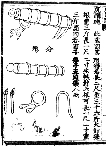 The hu dun pao in the Huolongjing